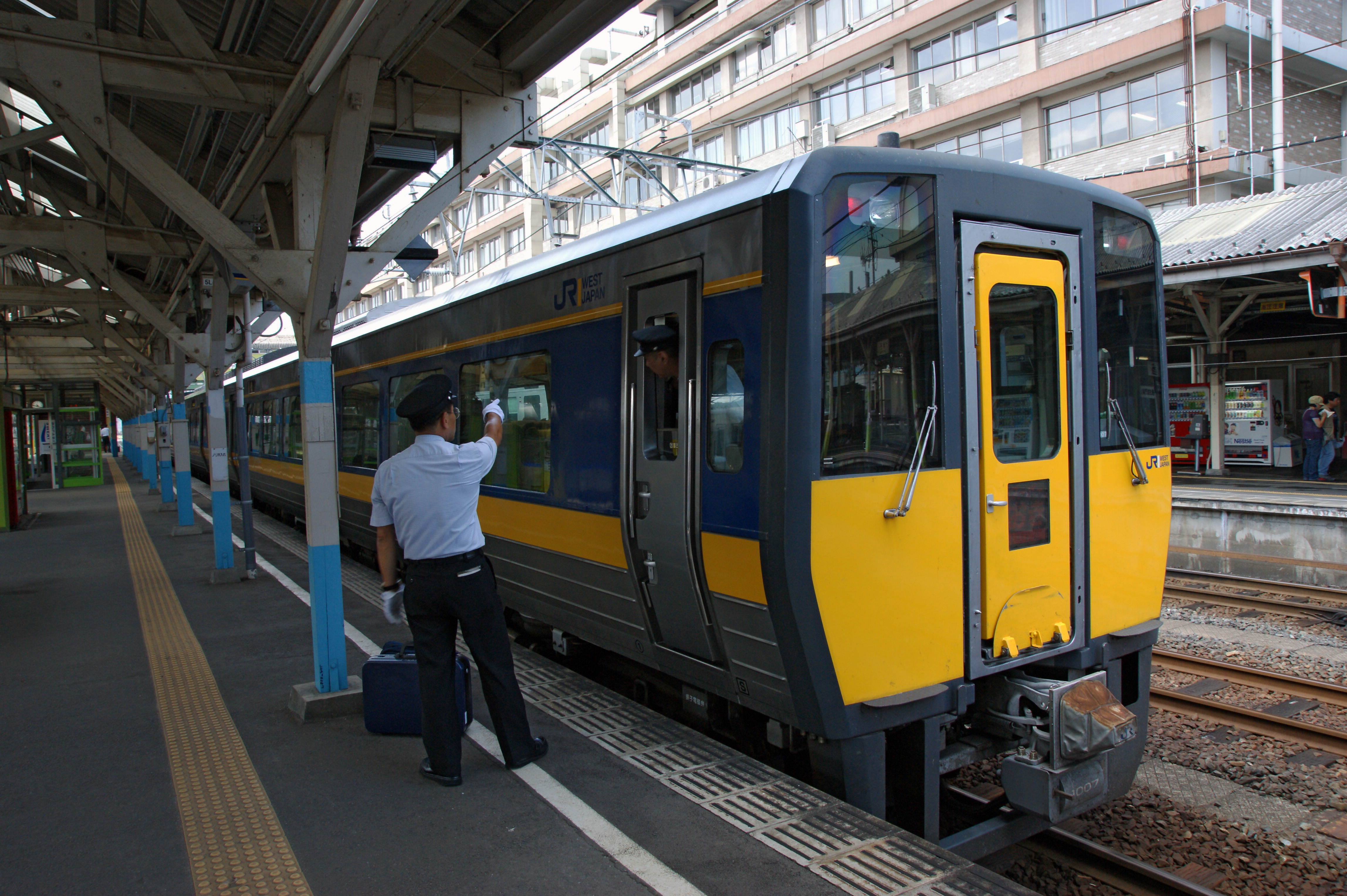 Yonago Station in Yonago, Tottori prefecture, Japan